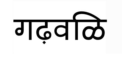 The word 'Garhwali' in Devanagri script as written in Garhwali language